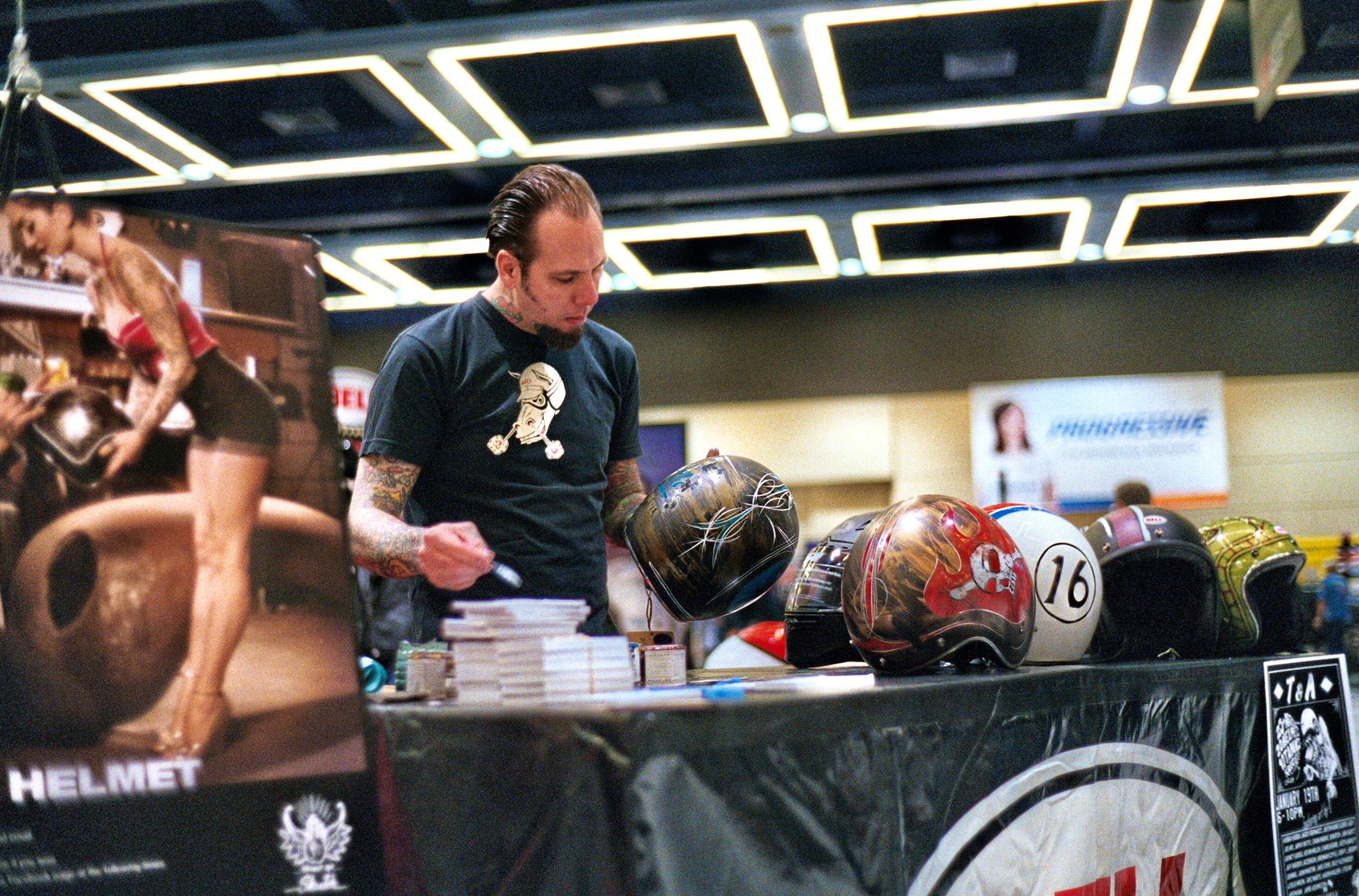 Roland Sands painting helmets at the Bell Helmets booth at the 2012 Seattle International Motorcycle Show.